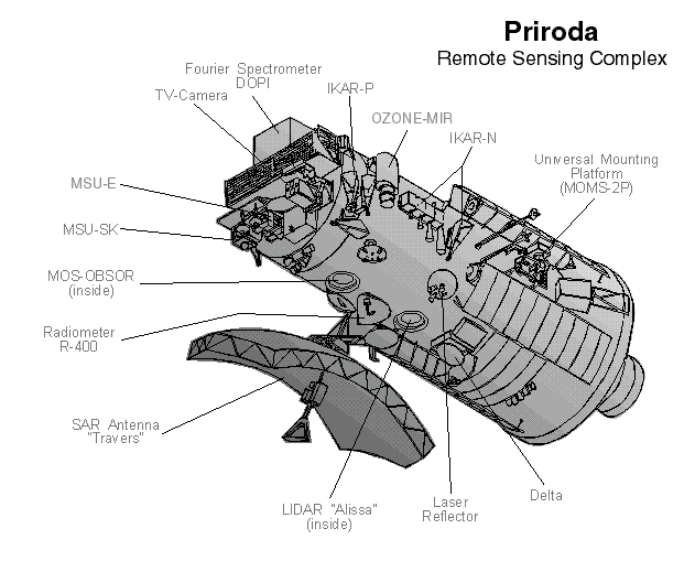 A diagram of Priroda, the seventh and final module of the Russian space station Mir.